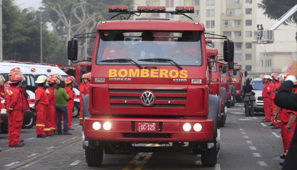 Modern firetrucks in Lima, Peru.